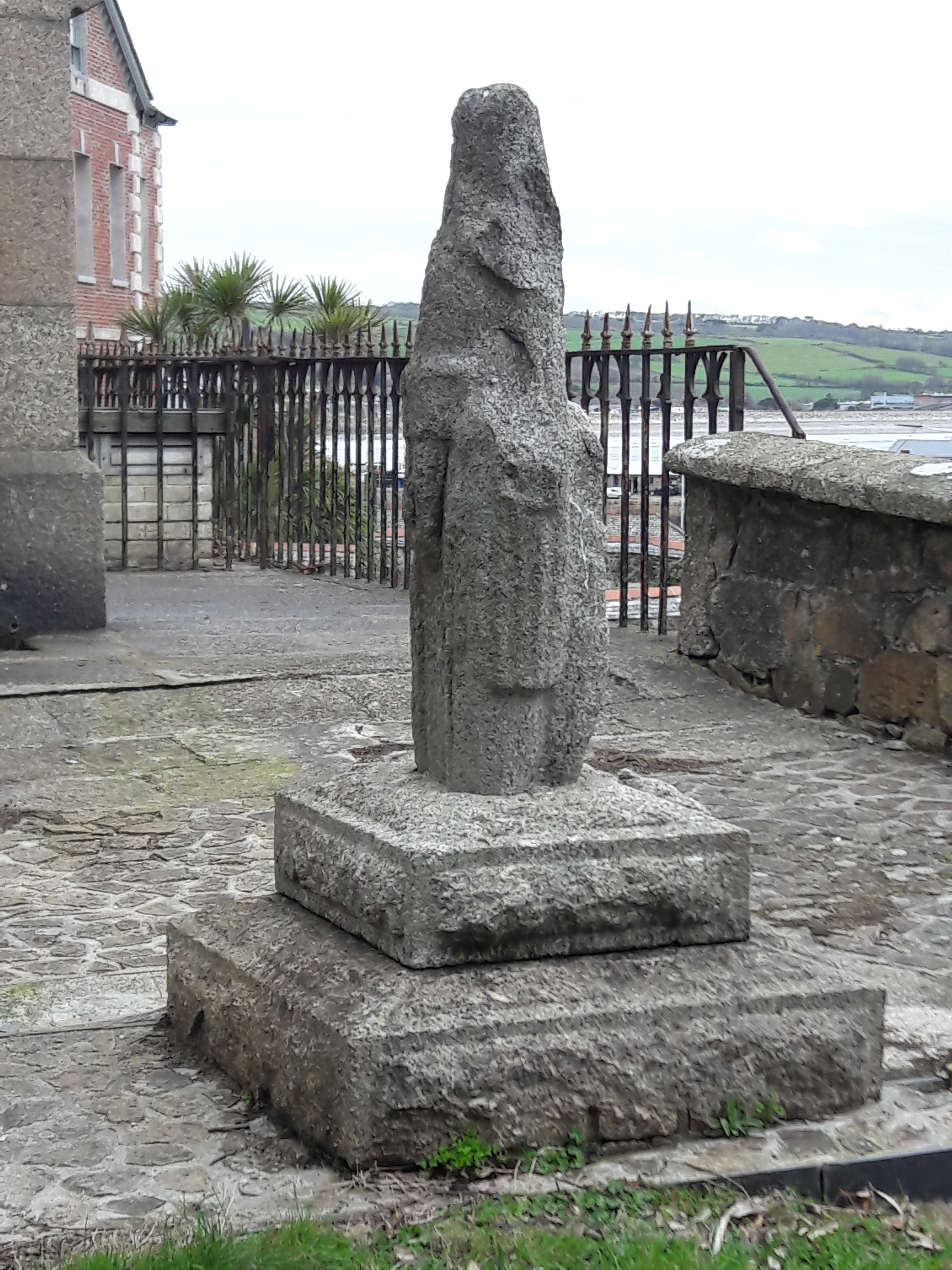 Carved stone, supposedly from the Chapel of St Gabriel and St Raphael. Four foot high, carved Ludgvan granite and moved to the churchyard in 1850. One side shows a defaced figure of Christ in a loincloth and another shows a seated Madonna holding a child. PAS Pool (1974) The History of the Town and Borough of Penzance. (page 15).